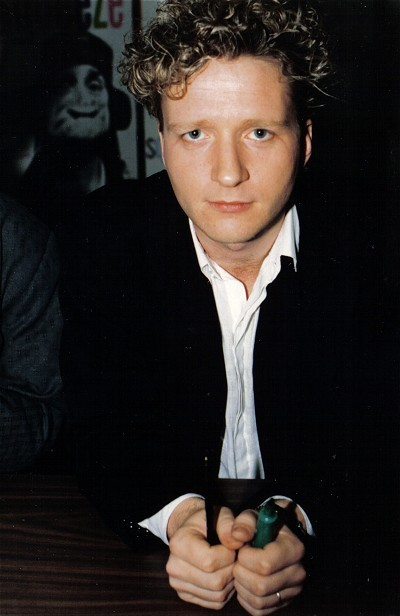 Glenn Tilbrook of Squeeze at a record store in Los Angeles